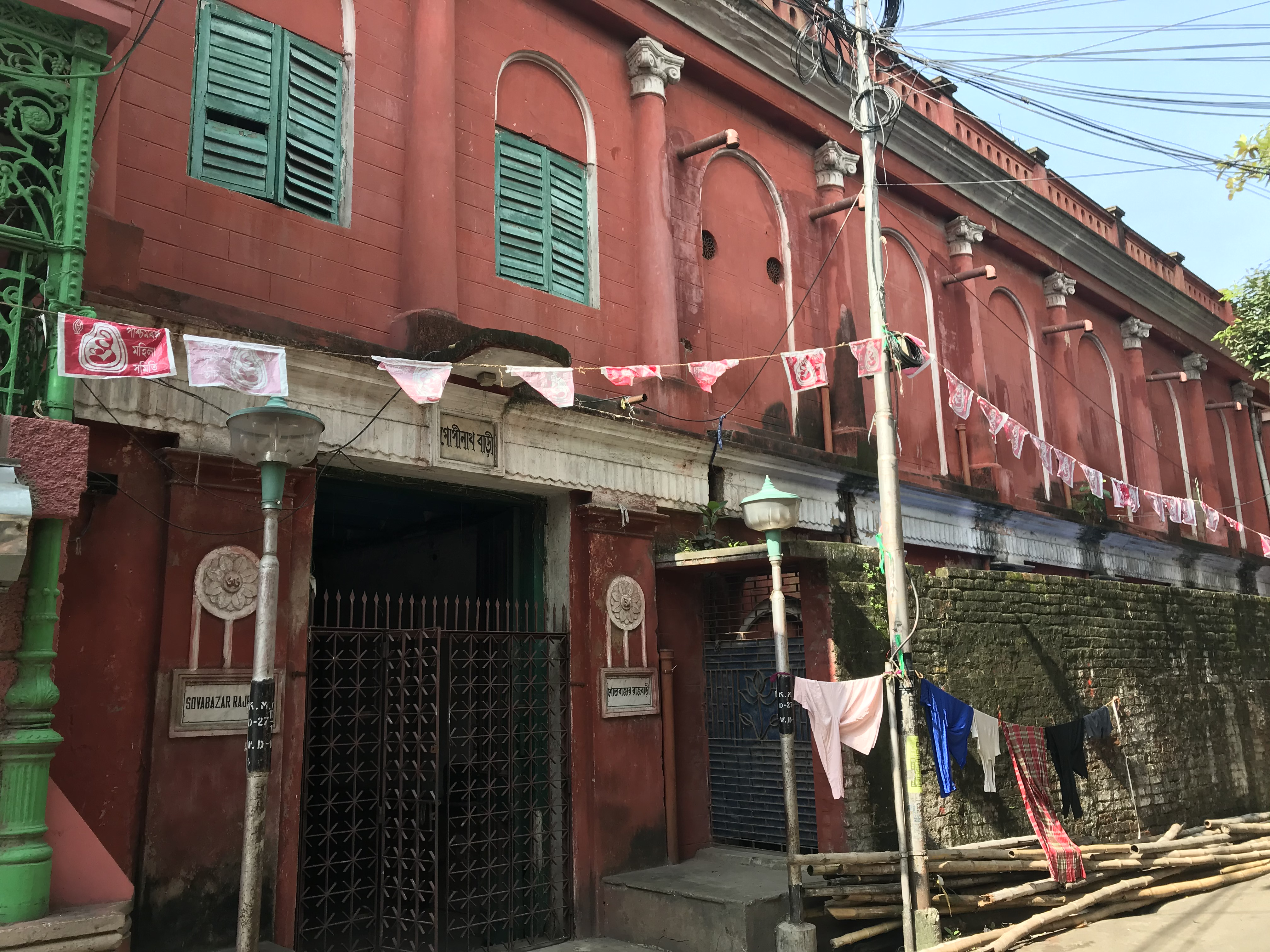 This is the outside view of Sovabazar Royal Palace, 36 Raja Naba Krishna street, Kolkata, India and the photograph is taken during the Wikipedia takes Kolkata IX photo walk.